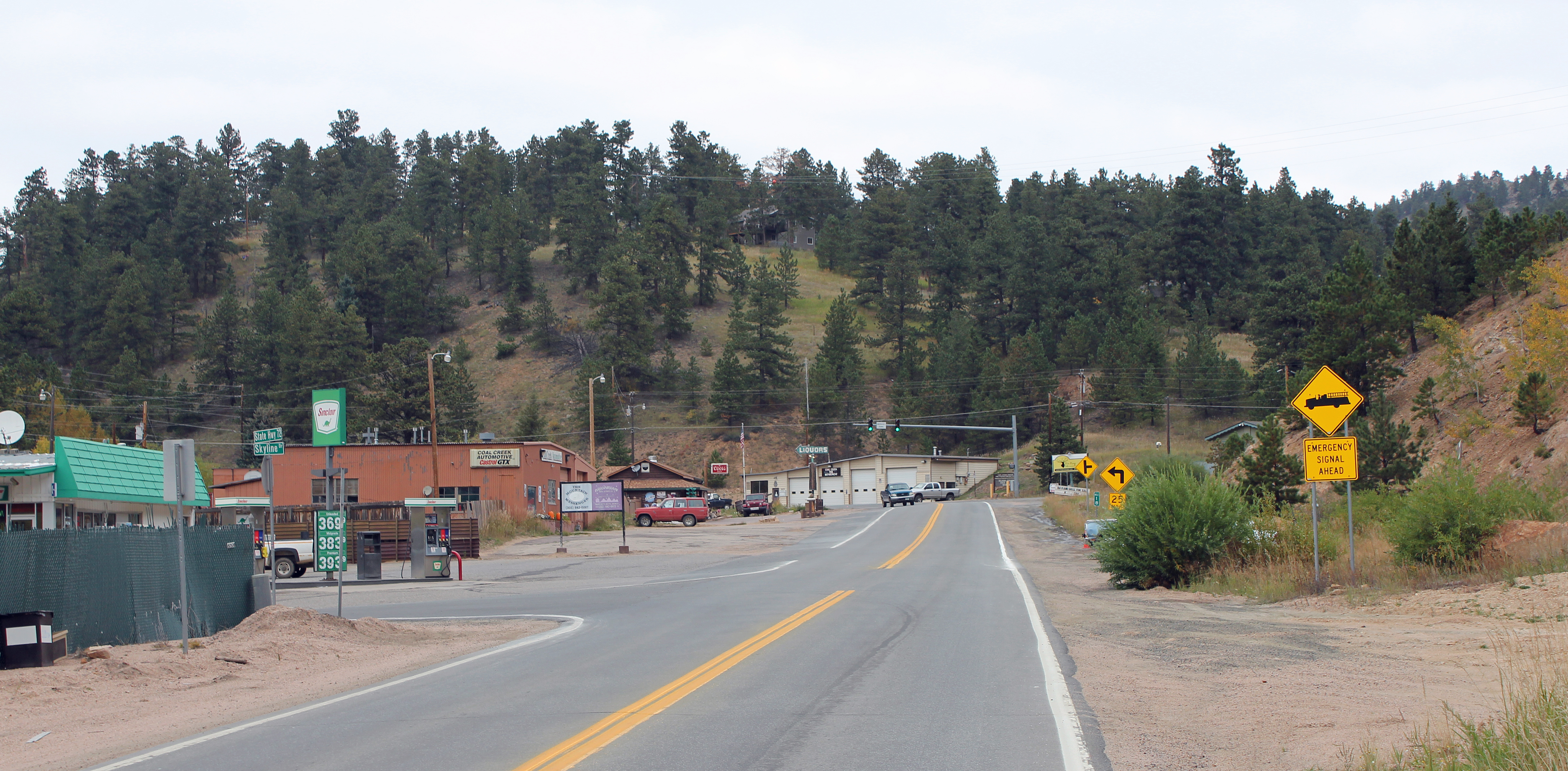 The "downtown" section of the village of Coal Creek (also called Coal Creek Canyon) in Boulder County, Colorado. The road the photographer is standing on is Colorado State Highway 72, which is also Coal Creek Canyon Road.